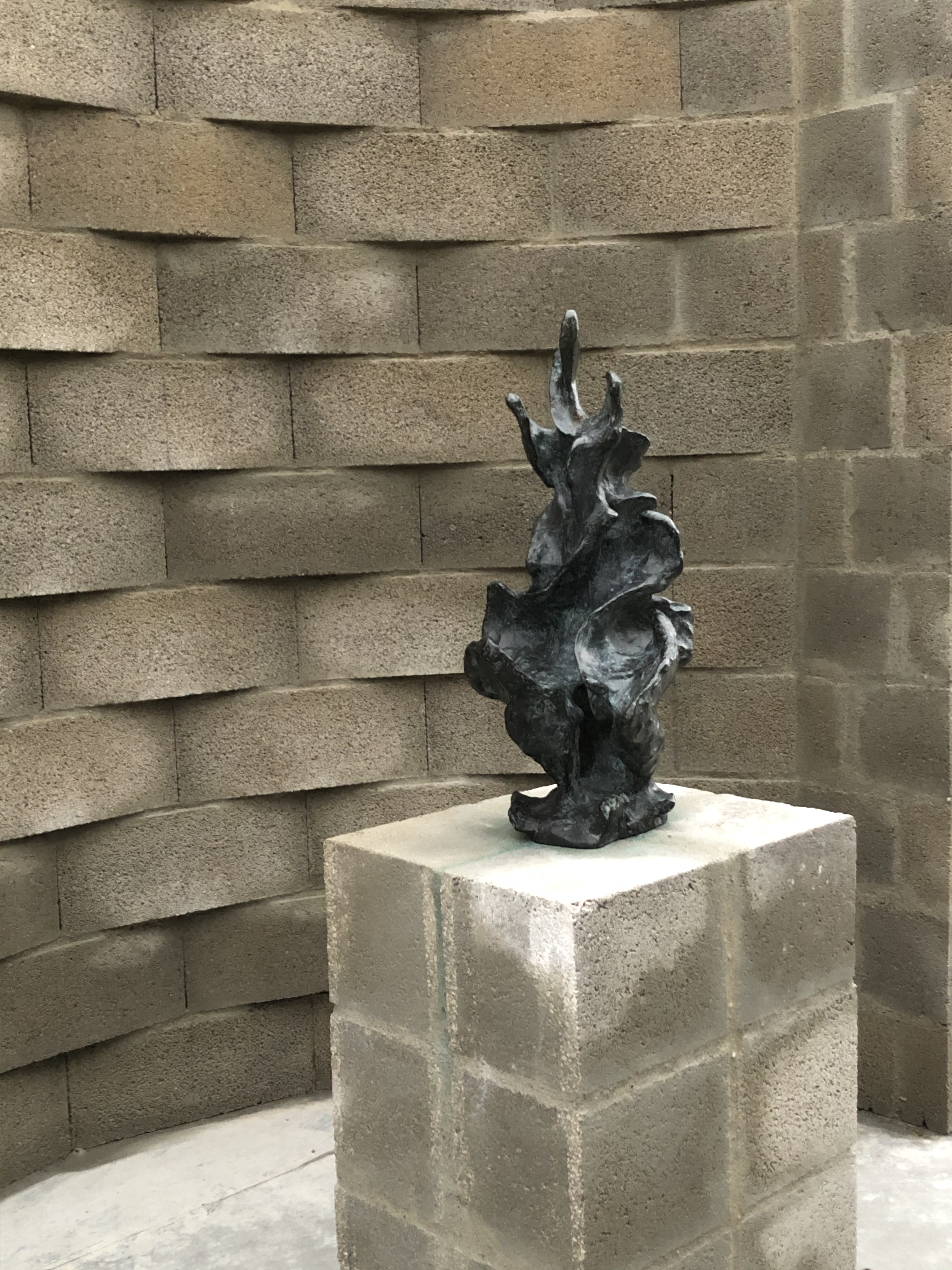 João Charters de Almeida, Seated Woman, 1960-1962 in exhibition at the Calouste Gulbenkian Foundation gardens, December 2019.